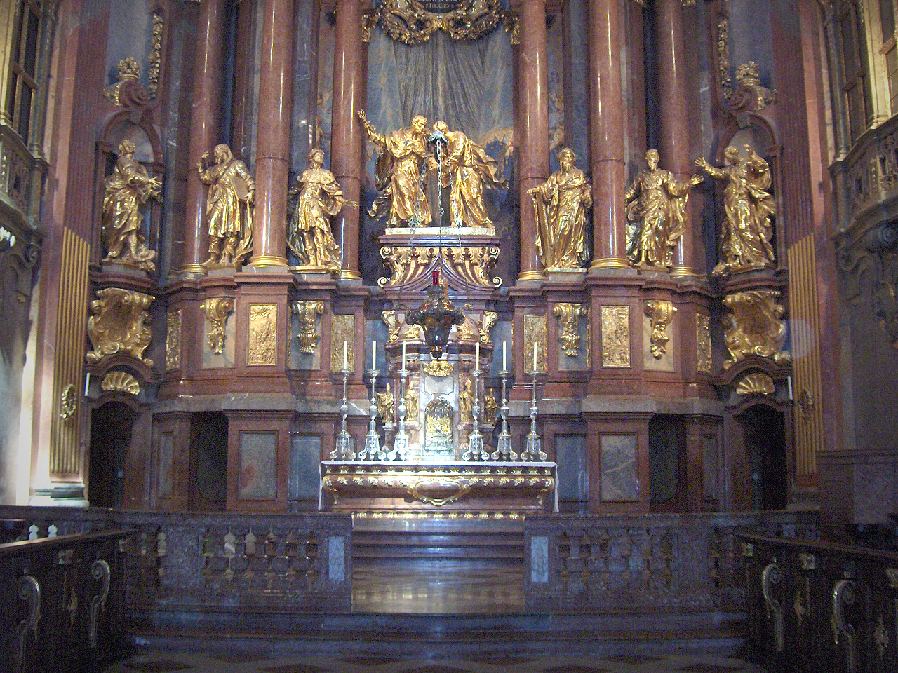 High altar, built with Salzburg marble, gilded wood and gold (plans by Galli-Bibiena); church of the Melk Abbey, Austria